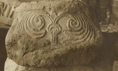 Bulgaria